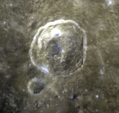 Clementine color image The crater on Römer's floor is Römer Y. The prominent crater at 7 o'clock is Römer D.